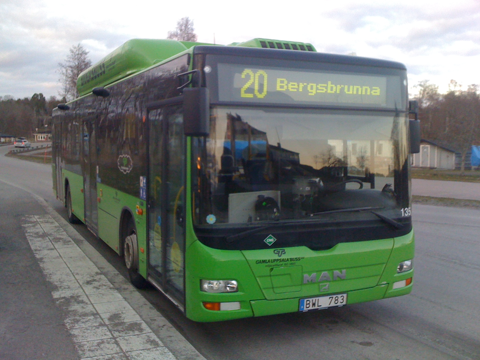 A MAN Lion's City A21 CNG bus in the Sunnersta neighborhood in Uppsala, Sweden.